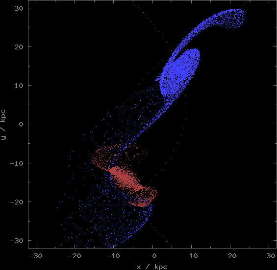 Simulation of interacting galaxies, after fly-by. See Image:Interacting Galaxies 1.png for more information.